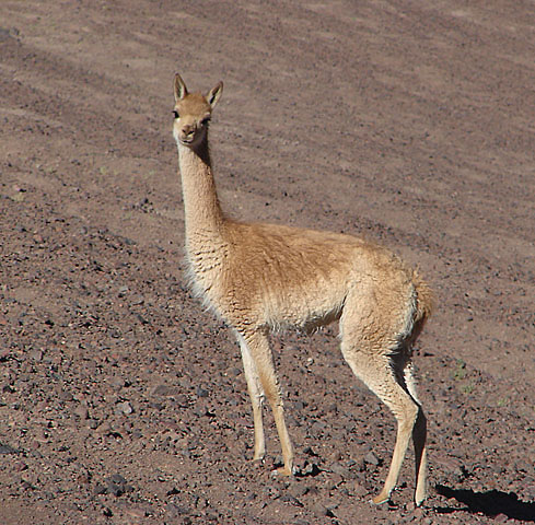 A vicuña near the Chilean border in Salta Province, Argentina. In context at